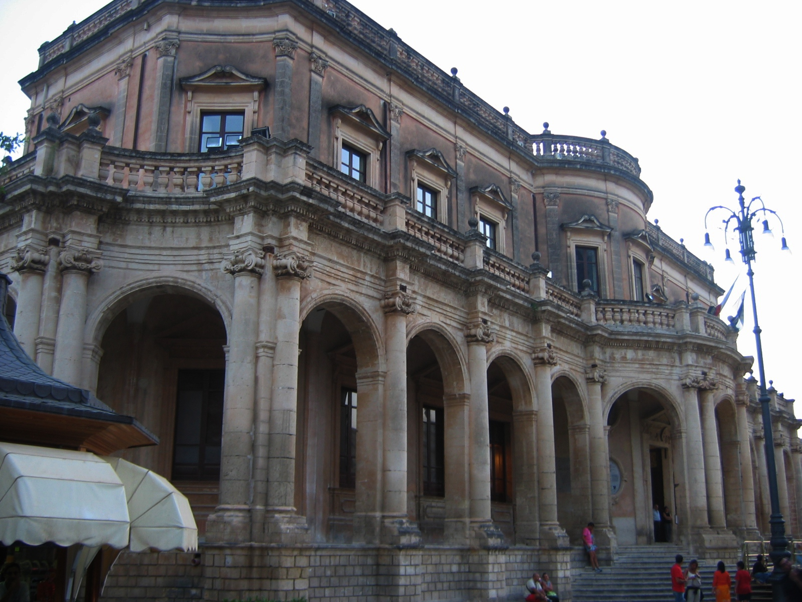 Author : Urban Description : Palazzo Ducezio, Noto, Sicilia Body : Canon Powershot A80 Date : August, 2005